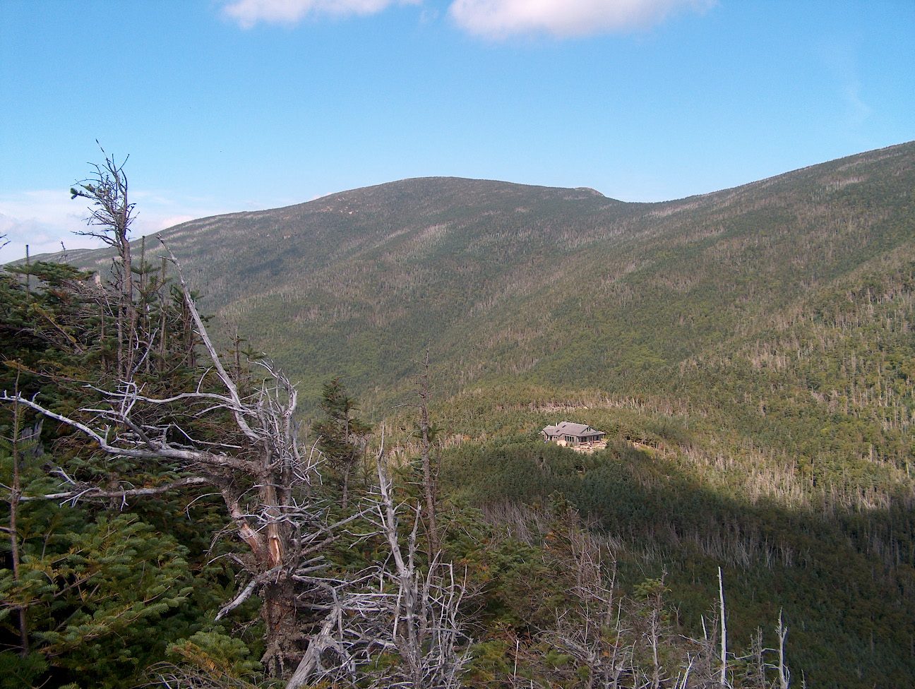 North Twin Mountain in the White Mountains of New Hampshire. Photo by Ken Gallager, September 2004.